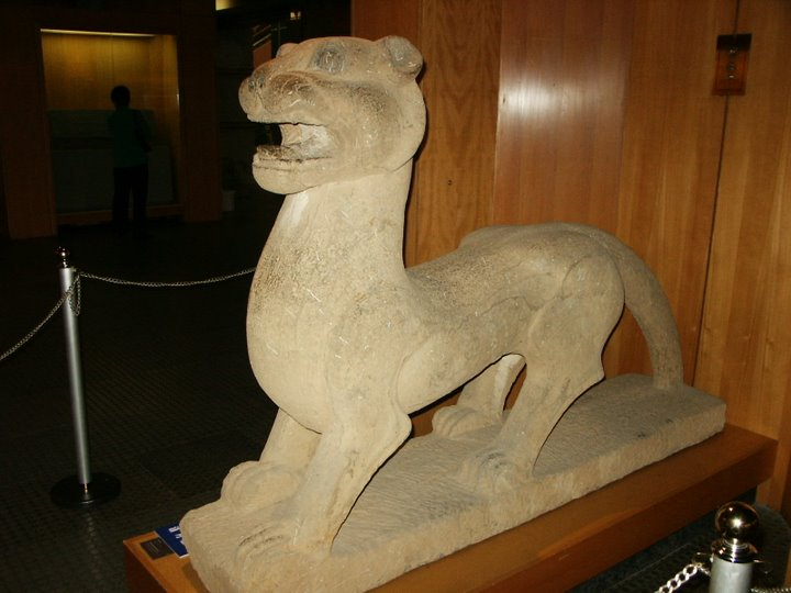 Template:Tomb guardian from Donghan, Xuchang